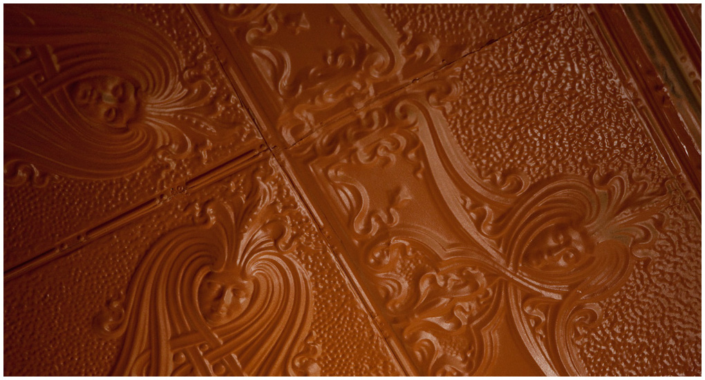 Original section of Tin Ceiling found in the Vox Theatre - the entire tin ceiling has been restored in the space.